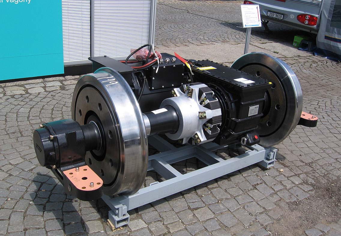 Driving axle of Bombardier Talent, manufactured by Bonatrans